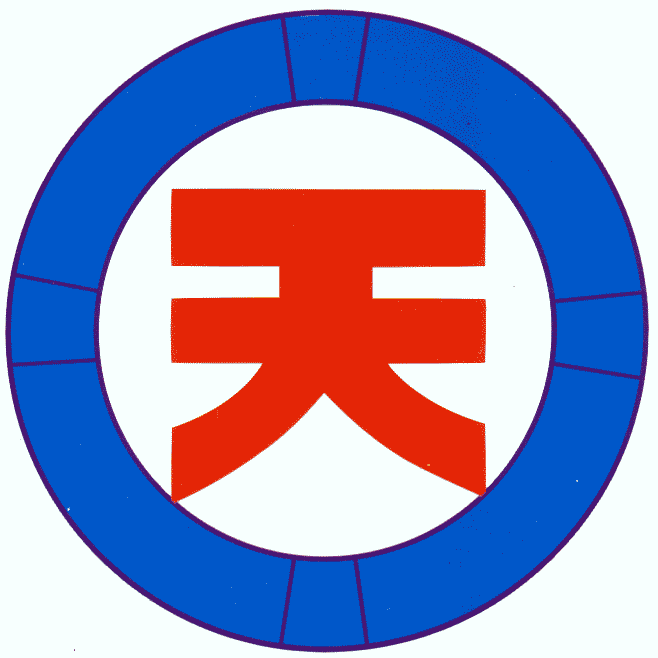 Emblem of Thian Fah Foundation Hospital, Bangkok, Thailand 中文（香港）: 泰國 曼谷 天華慈善醫院 院徽